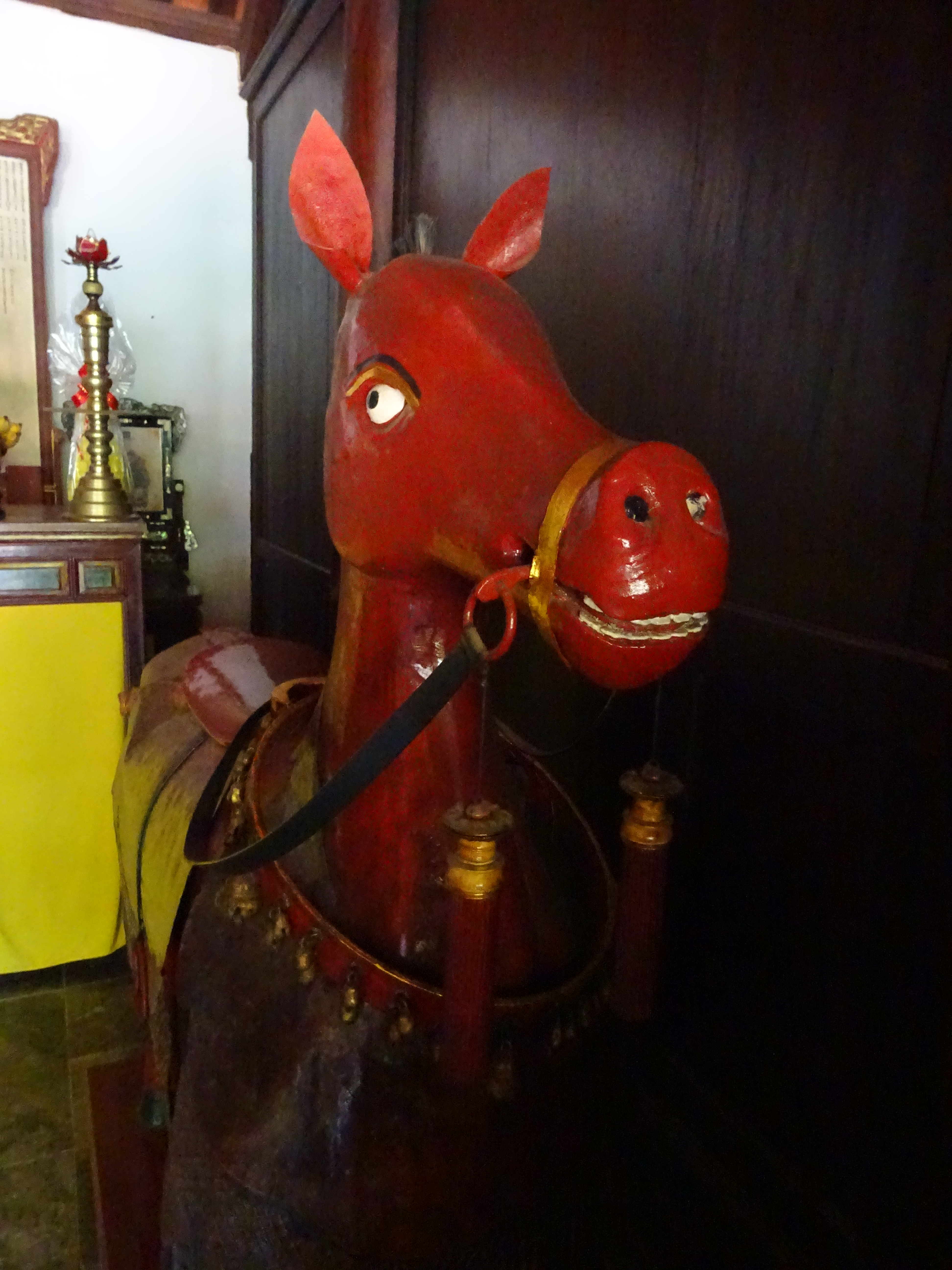 The Từ Hiếu Pagoda in Huế.